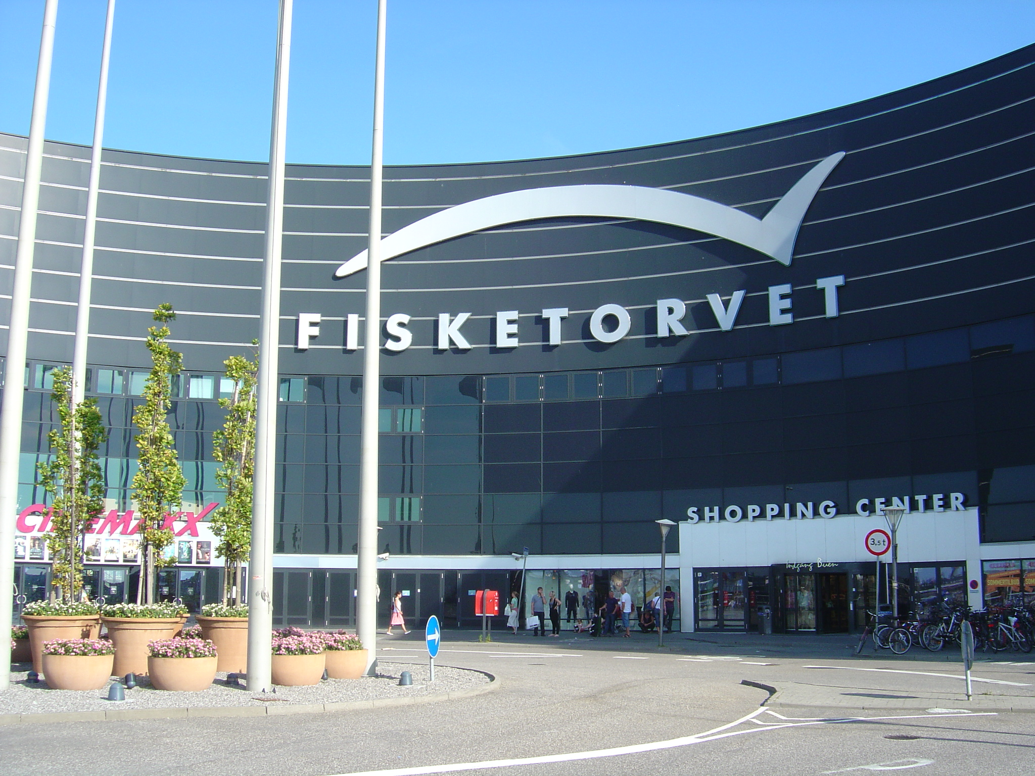 Fisketorvet - A shopping center located in Copenhagen. Seen from the northwest side next to the main entrance.